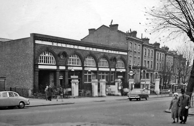 Belsize Park Underground Station entrance. View eastward of entrance, on Haverstock Hill; Northern Line Edgware branch.